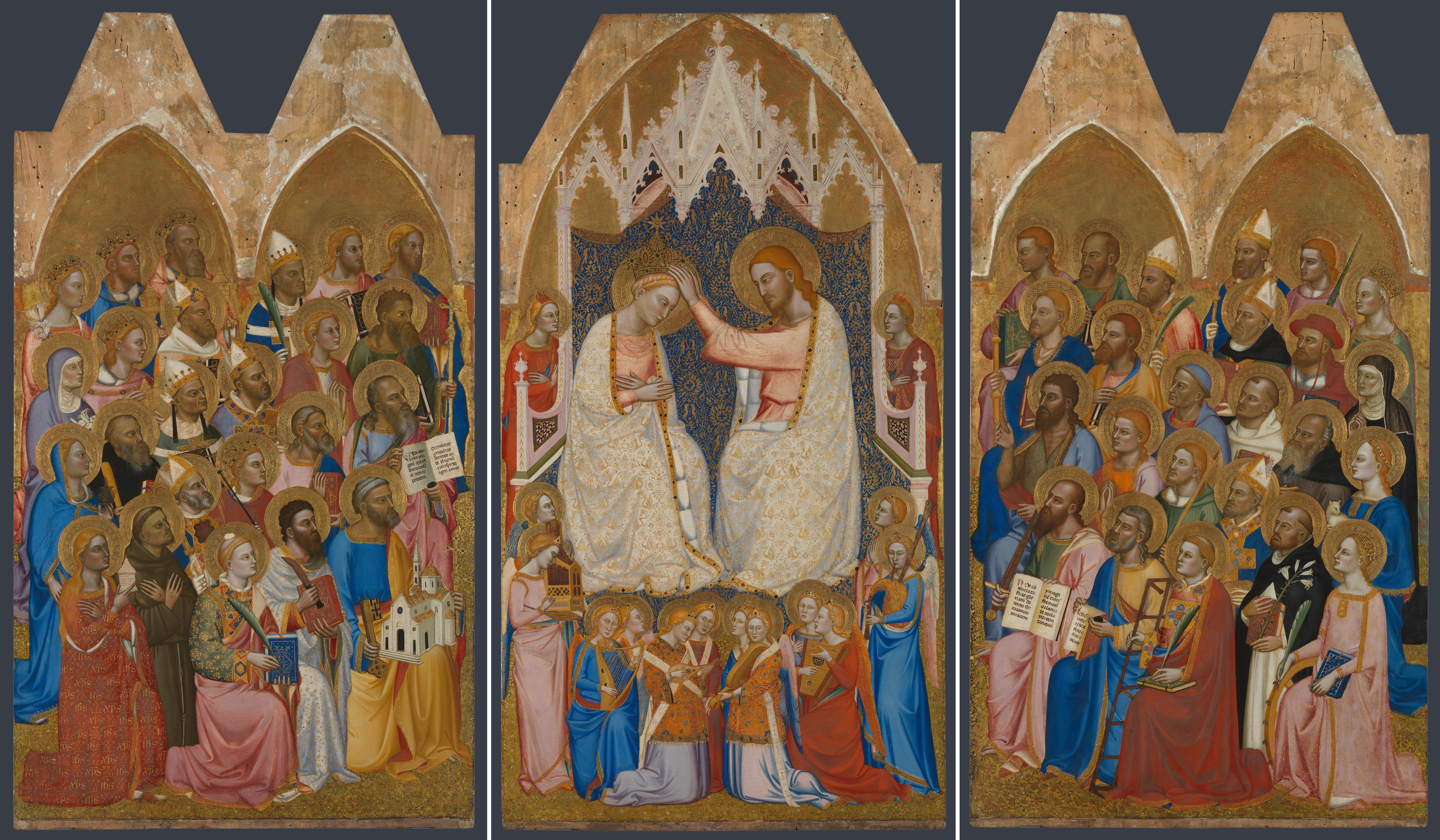 three central panels